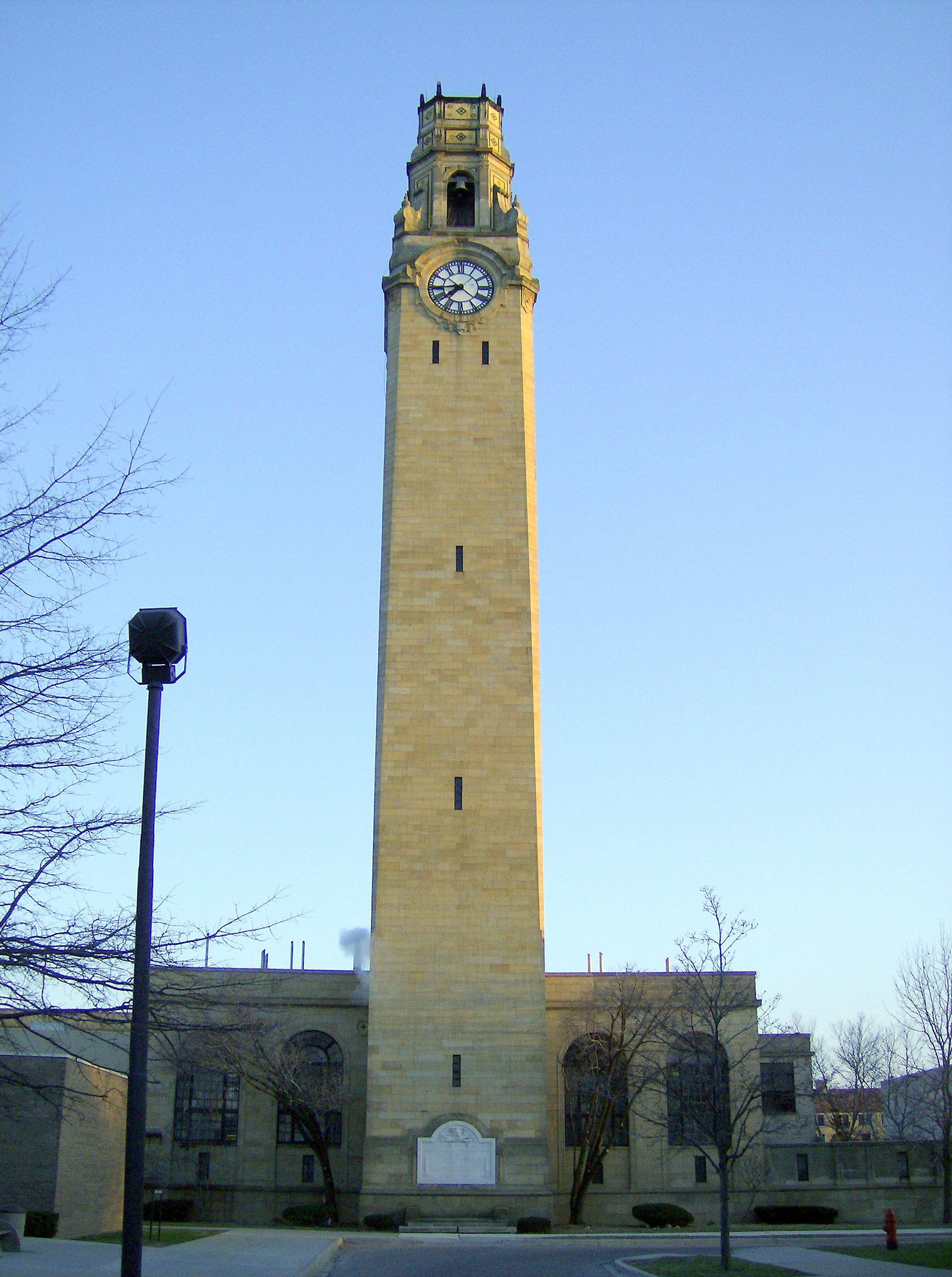 UDM campus